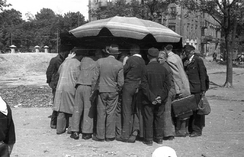 Month before WarsawUprising: Group of people play at the gambling table at Iron Gate Square.